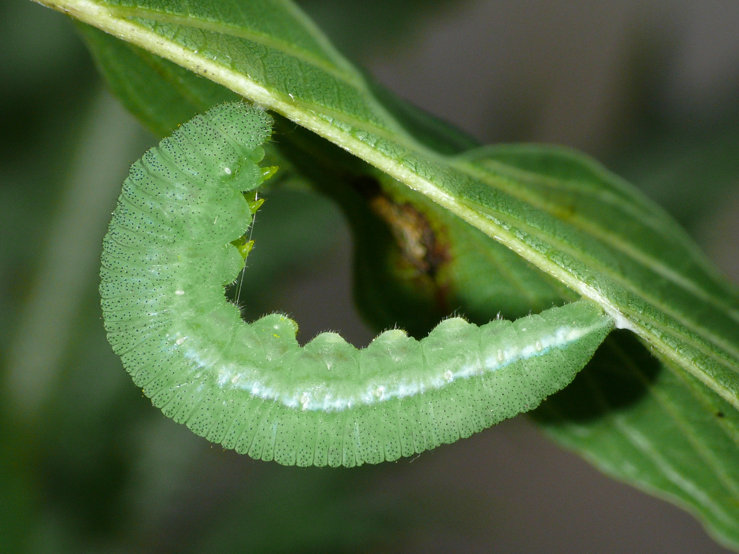 Prepupa of Common Brimstone